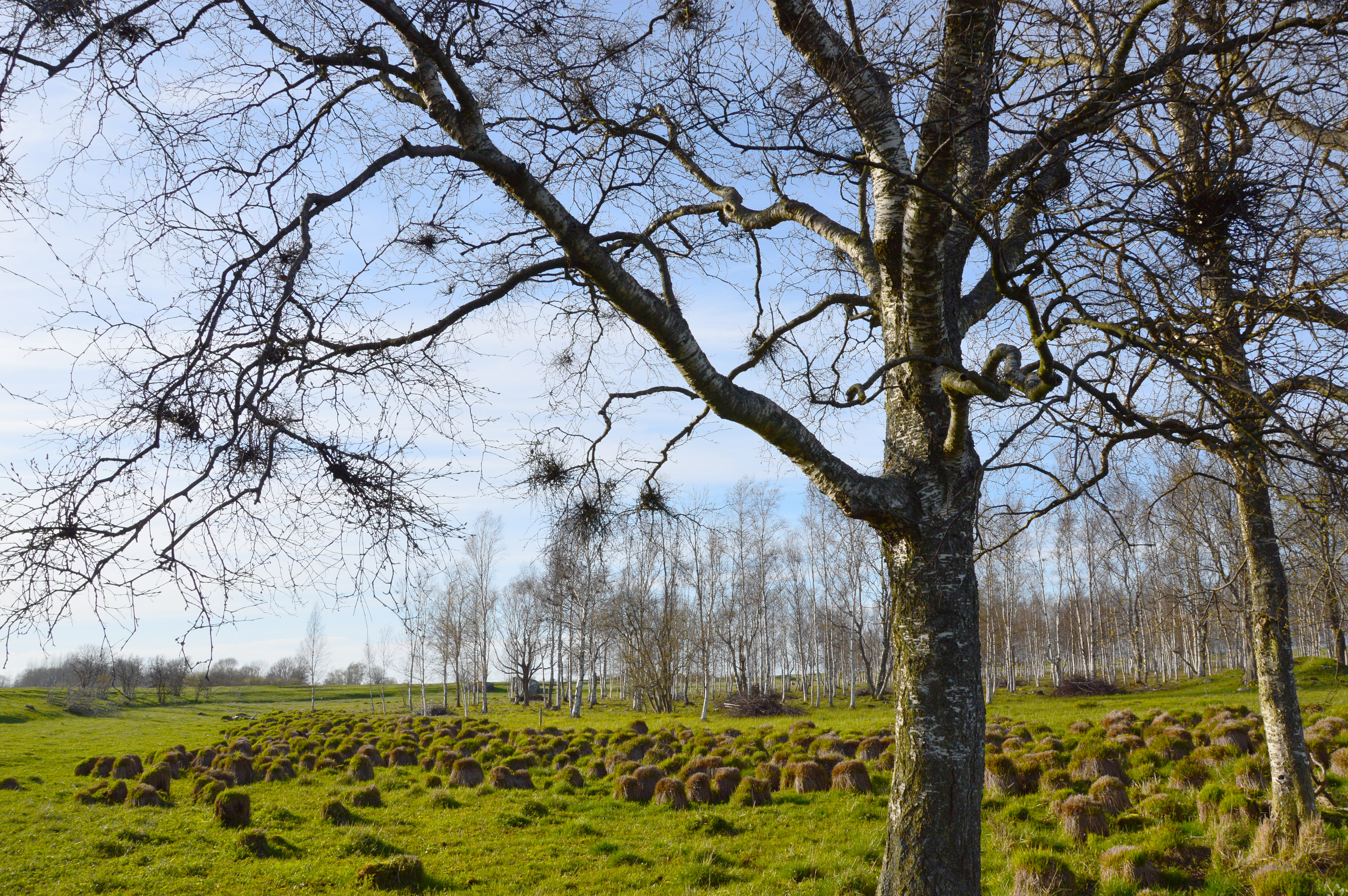 Carex plants and birch trees in Osmussaar near the old Bien village.